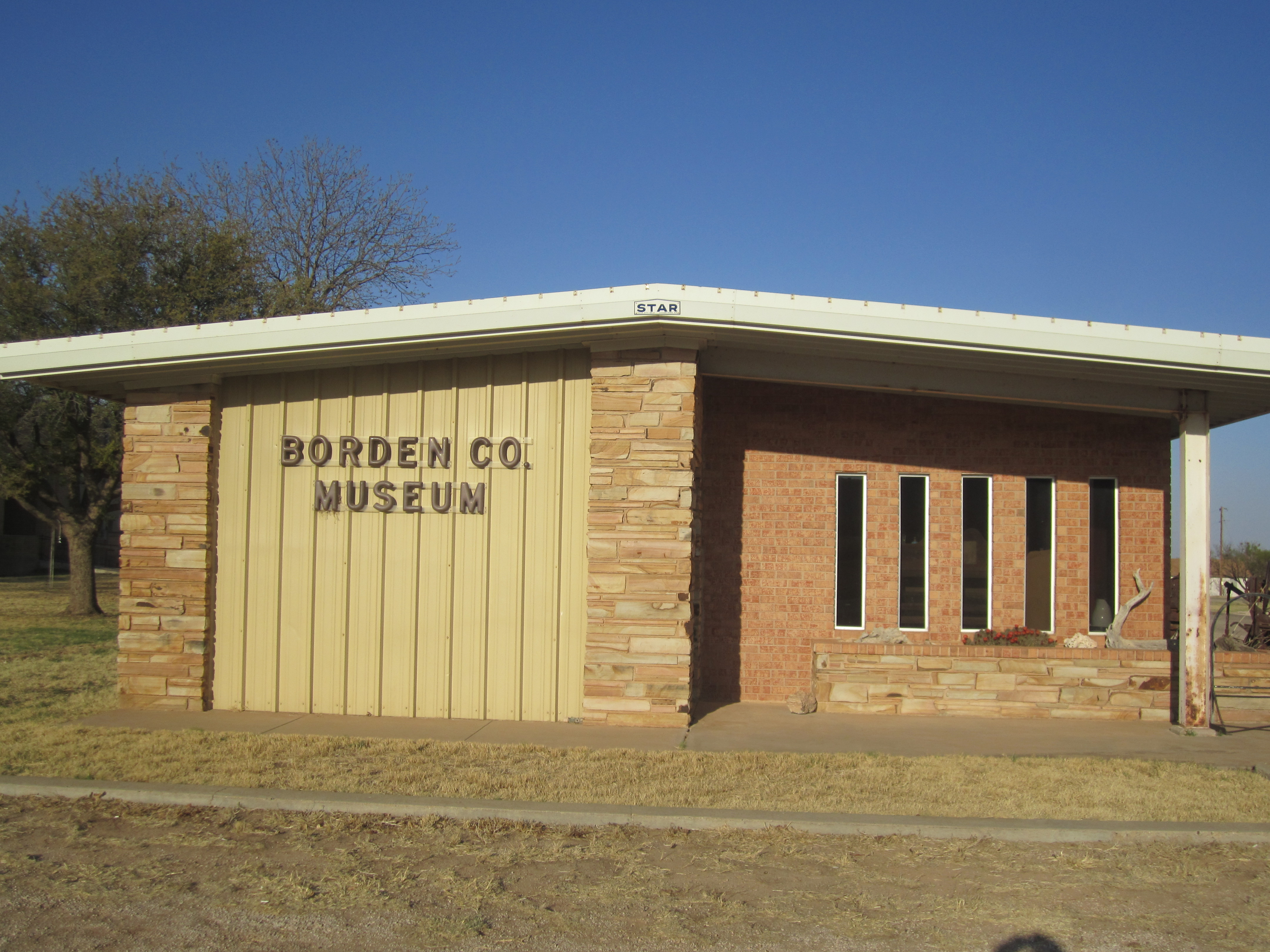 I took photo in Gail, TX, with Canon camera.